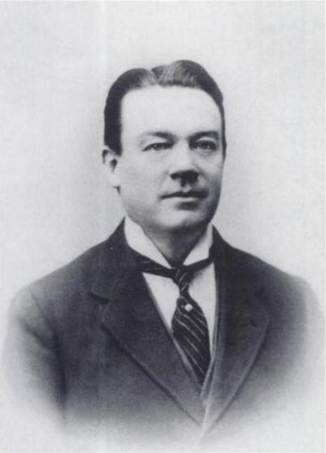 Joe Devlin, Irish nationalist politician and journalist. Image probably dates from the 1900s.